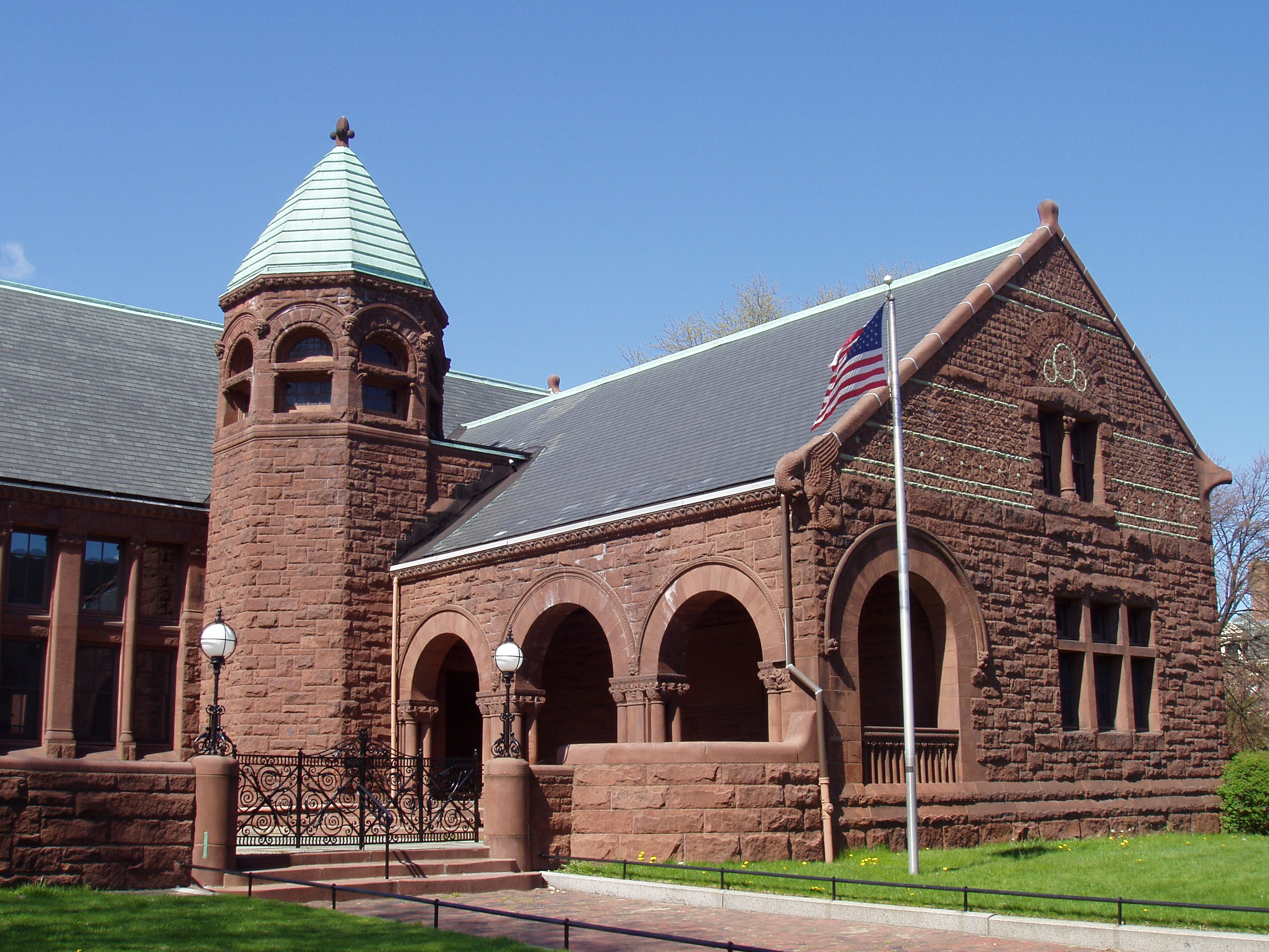 Converse Memorial Library, Malden, Massachusetts, USA; H. H. Richardson, architect. Angle view.